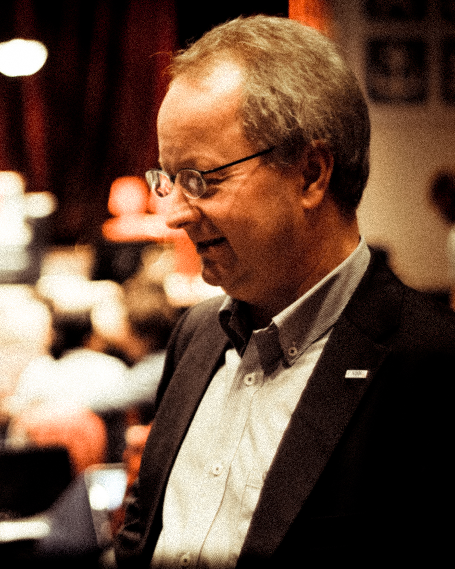 TEDx Speaker Bremley Lingdoh and Rector Jan I. Haaland discussing about "Making an impact at the grassroots to create positive change".